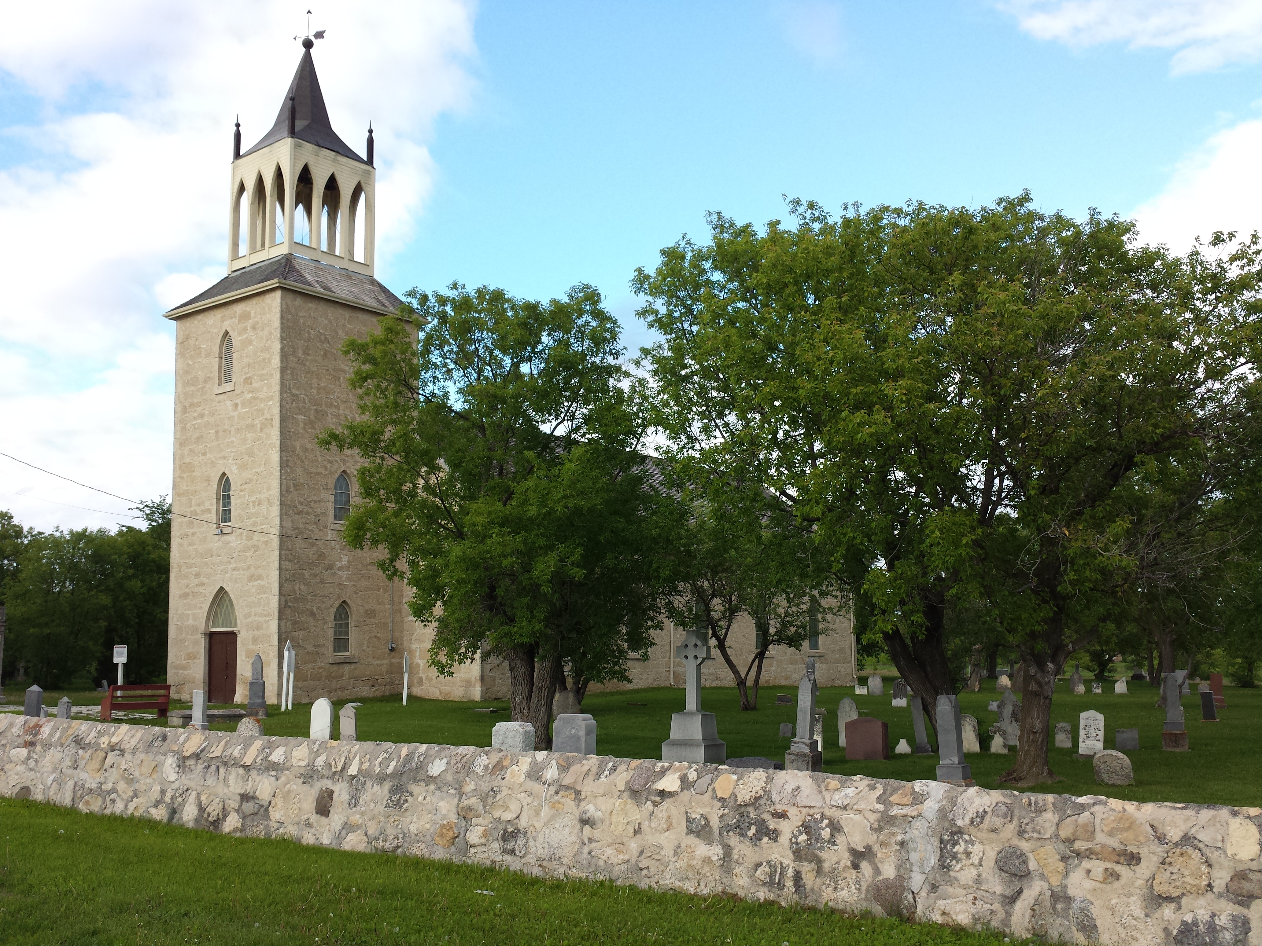 St. Andrews Anglican Church in St. Andrews, Manitoba, Canada. Built in 1849, it is the oldest stone church in Western Canada.